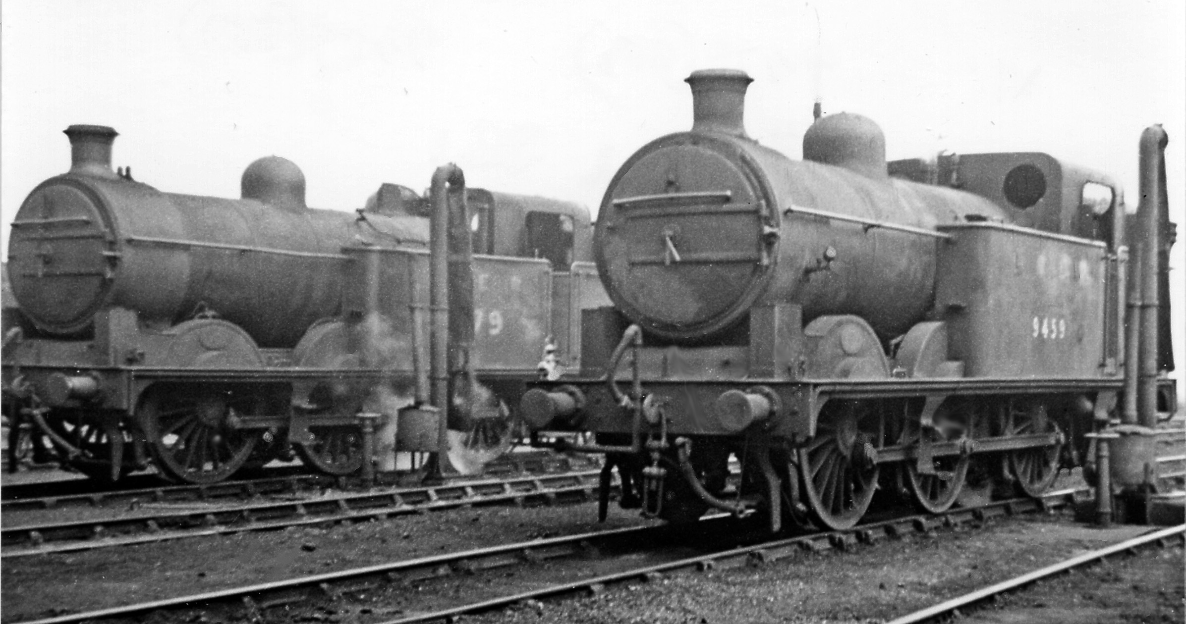 Ex-GN Ivatt N1 0-6-2T's at Bradford Hammerton Street Locomotive Depot. Nos. 9459 and 9479 were two of the many N1 0-6-2T's then used for various local services from Bradford Exchange, to Halifax, Keighley etc. In 1947, Hammerton Street (or Bowling Junction) Locomotive Depot was allocated 50 engines:- 1 0-8-0, 8 0-6-0, 20 0-6-2T and 21 0-6-0T.